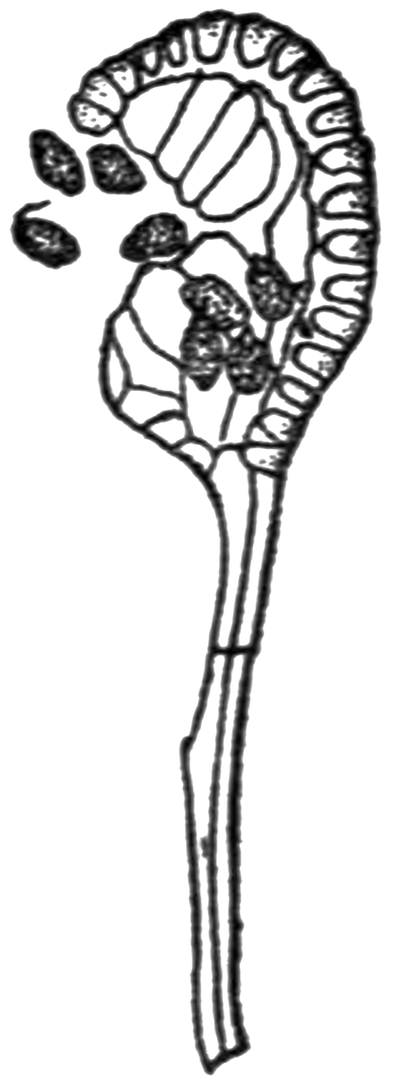 Our Native Ferns. Fig 02 - Sporangium of Polypodium vulgare